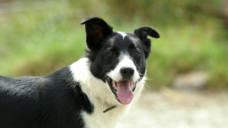 Dog (Canis lupus familiaris)